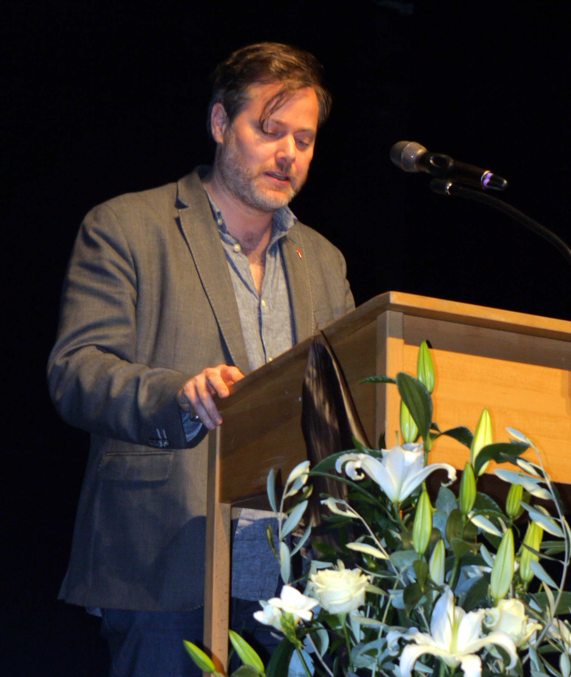 Swiss theatre director, journalist, essayist and lecturer Milo Rau (born January 25, 1977)